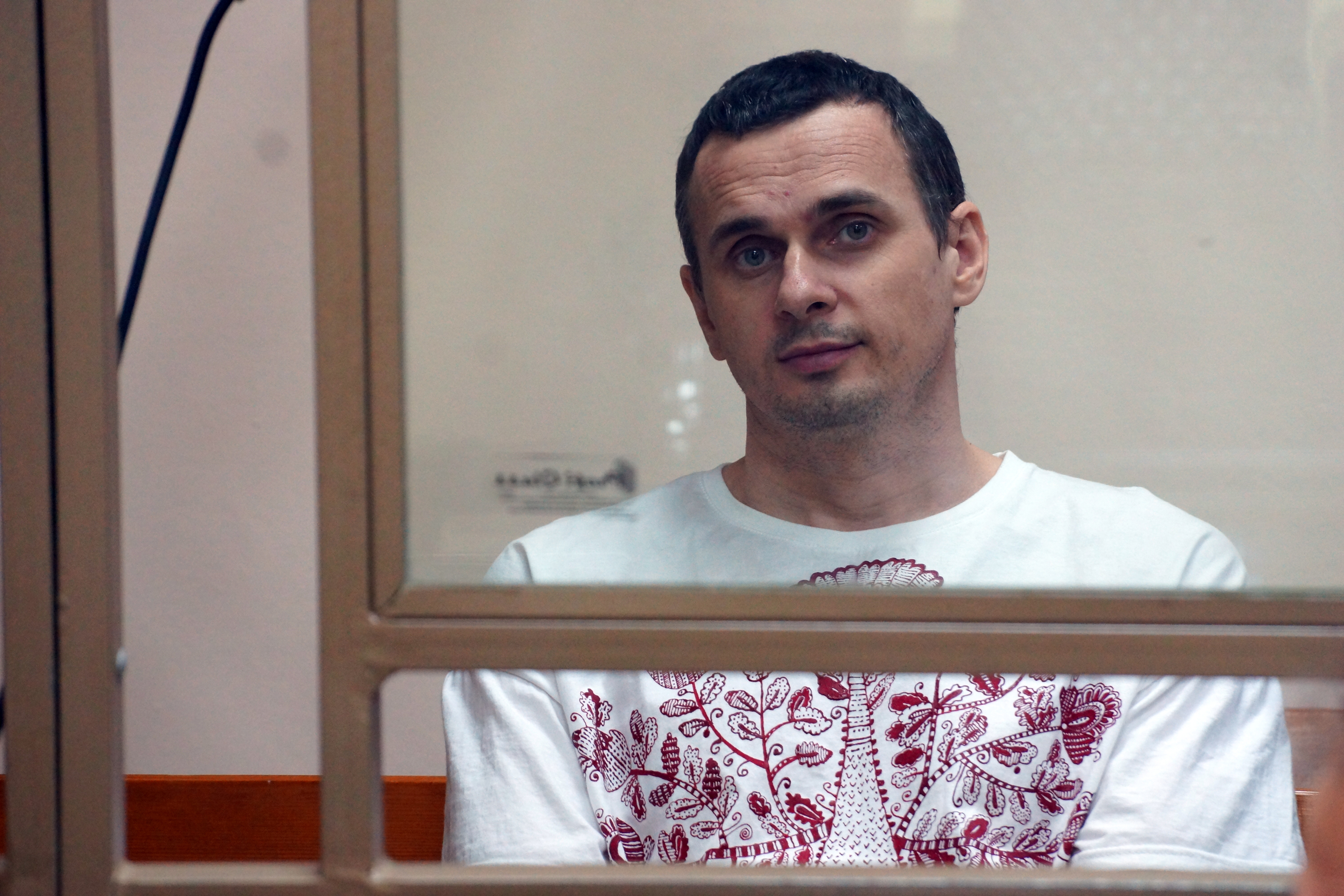 User created page with UploadWizard